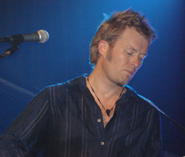 Magne Furuholmen (Mags), Norwegian, guitarist/keyboardist in guitarist/keyboardist in a-ha, also an artist.